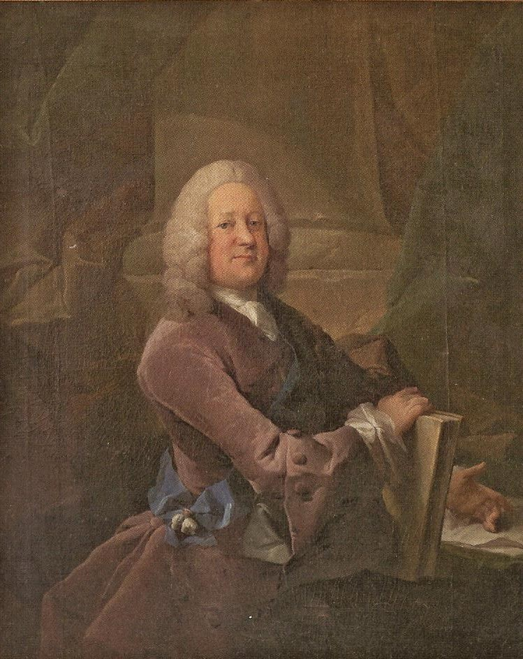 Carl Gustav Pilo: Claus Graf Reventlow auf Osterrade oil on canvas 129 x 106 cm, private collection in Schleswig-Holstein